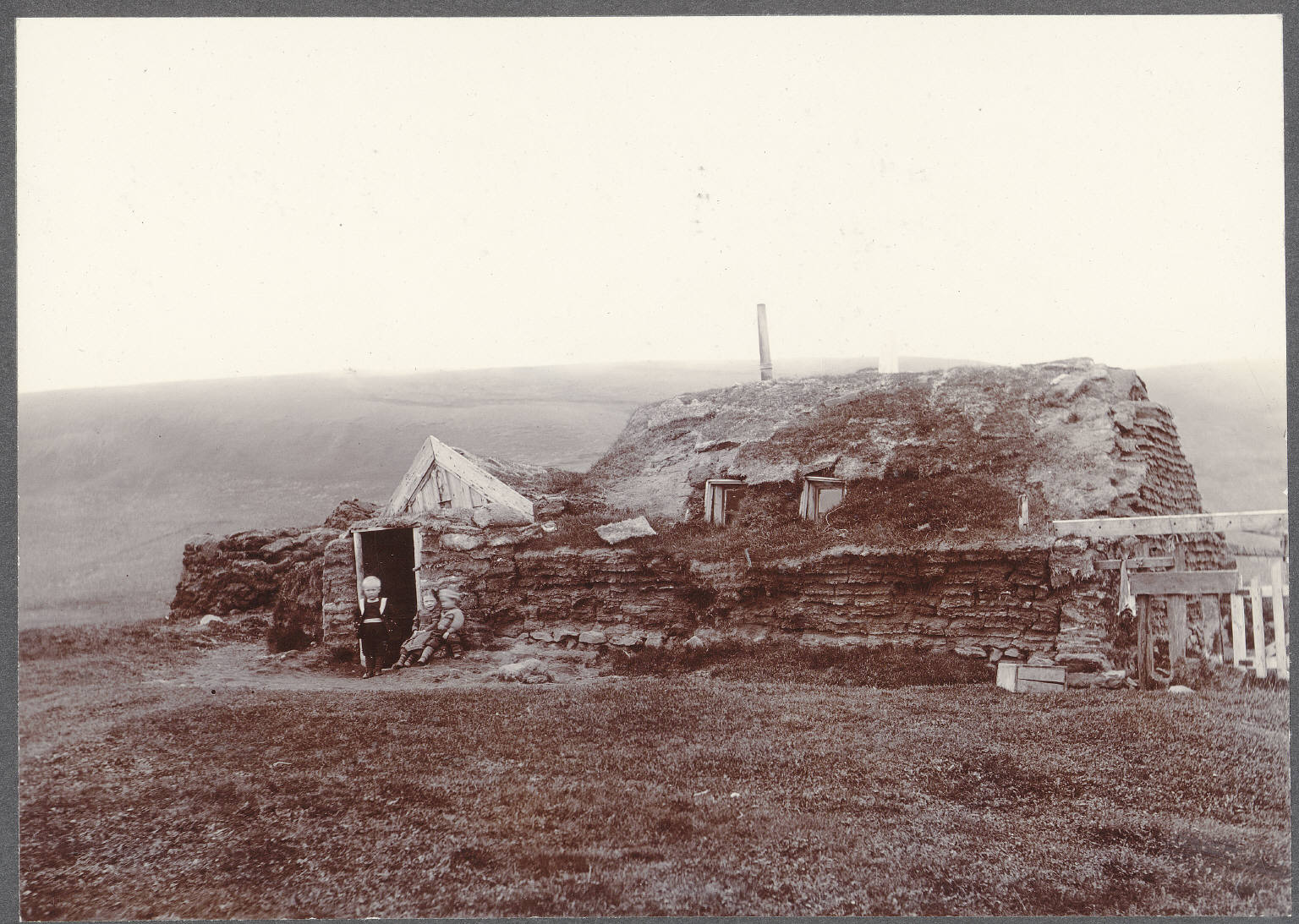 Collection: Icelandic and Faroese Photographs of Frederick W.W. Howell, Cornell University Library Title: Húsavík. Cottage. Date: ca. 1900 Place: Húsavík (Iceland) Medium: collodion print Repository: Fiske Icelandic Collection, Rare & Manuscript Collections, Cornell University Library Accession: 1923.4.45 Description: Húsavík. Cottage; or site of house of Garðar Svavarson, the first house built in Iceland. URL: Persistent URI: There are no known U.S. copyright restrictions on this image. The digital file is owned by the Cornell Univeristy Library which is making it freely available with the request that, when possible, the Library be credited as its source. We had some help with the geocoding from Web Services by Yahoo!